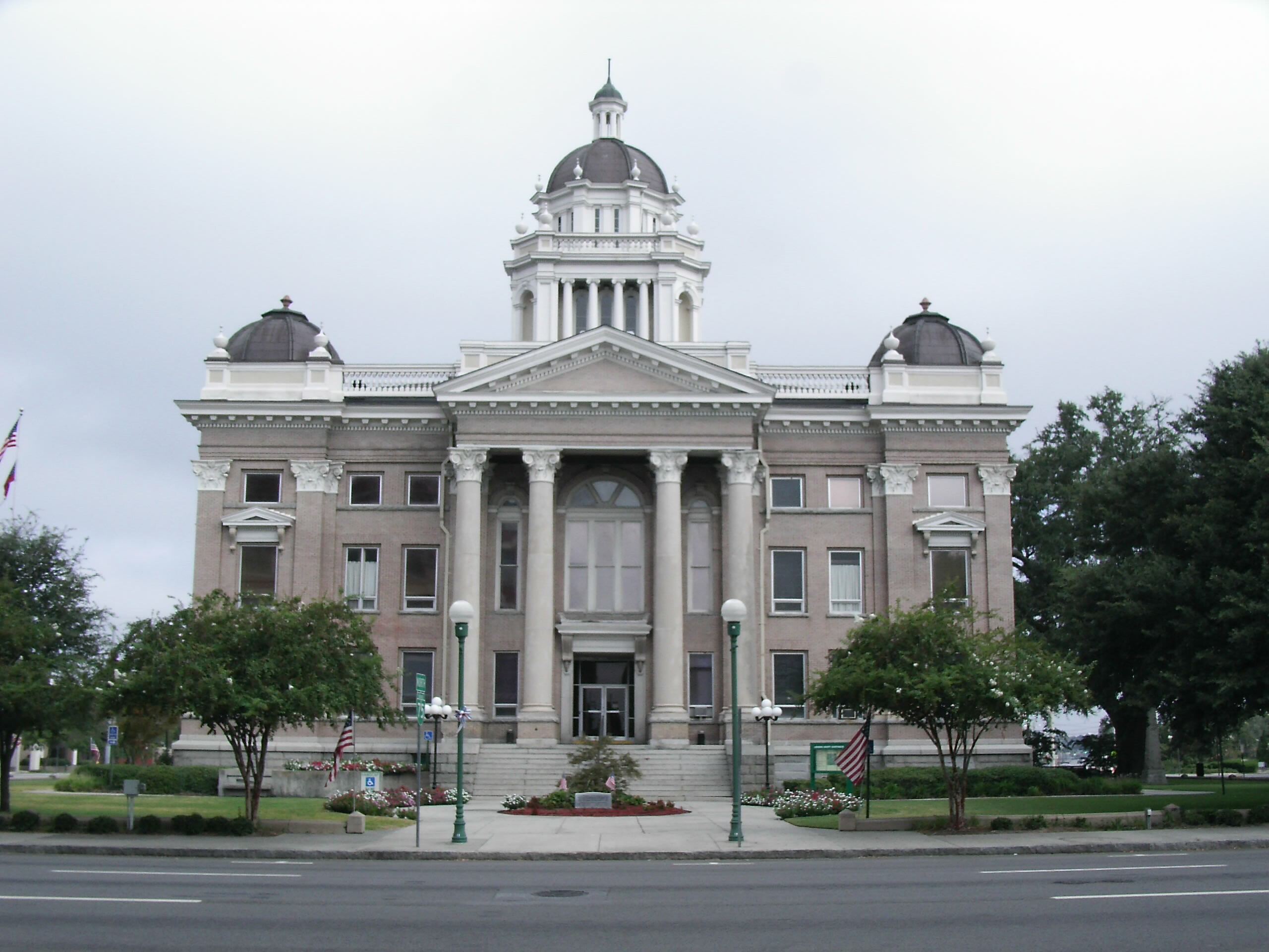 Picture by Michael Rivera (self) of Lowndes County Courthouse in Valdosta, GA